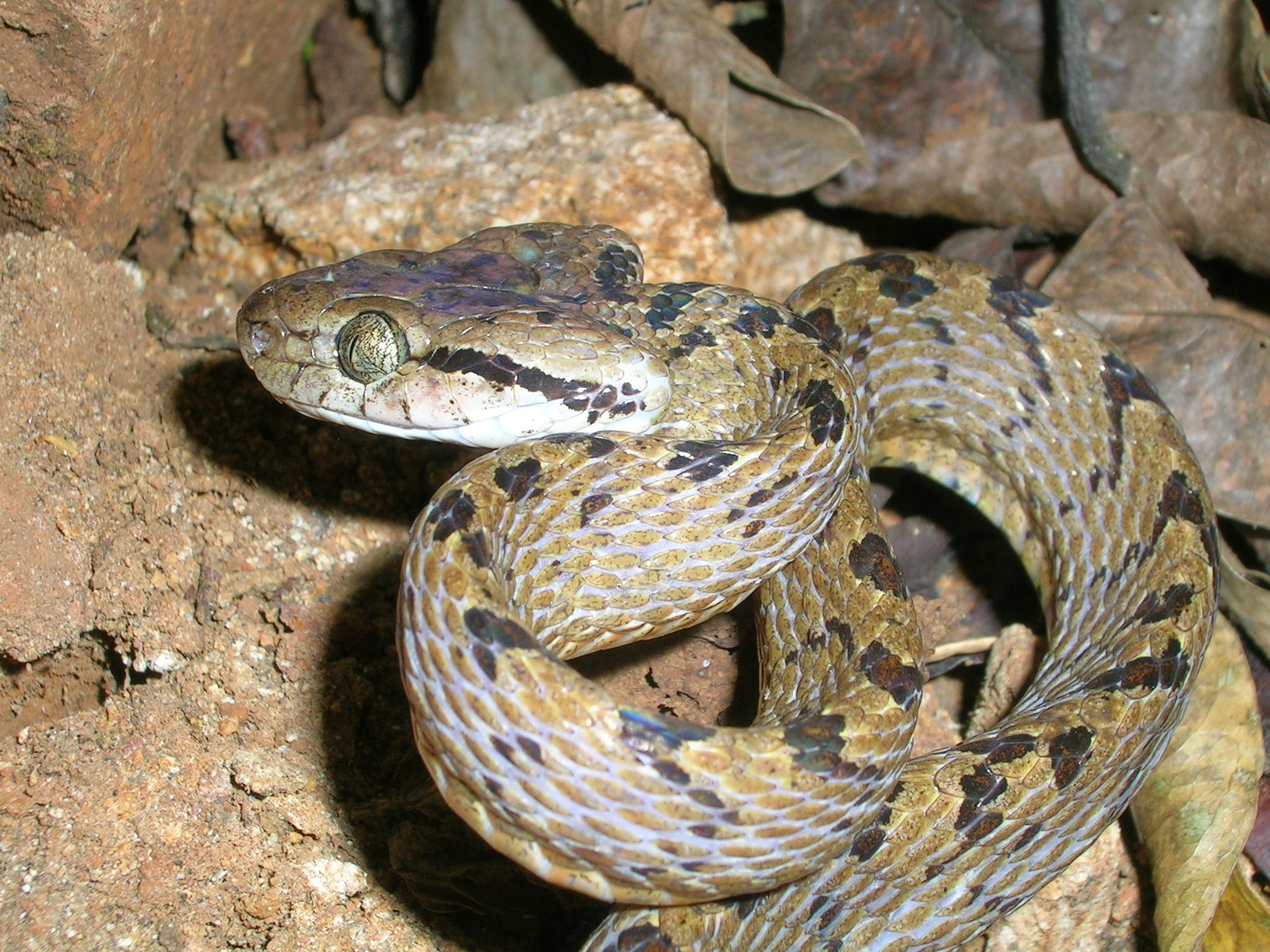 Boiga cf. ceylonensis, Wynaad, Kerala